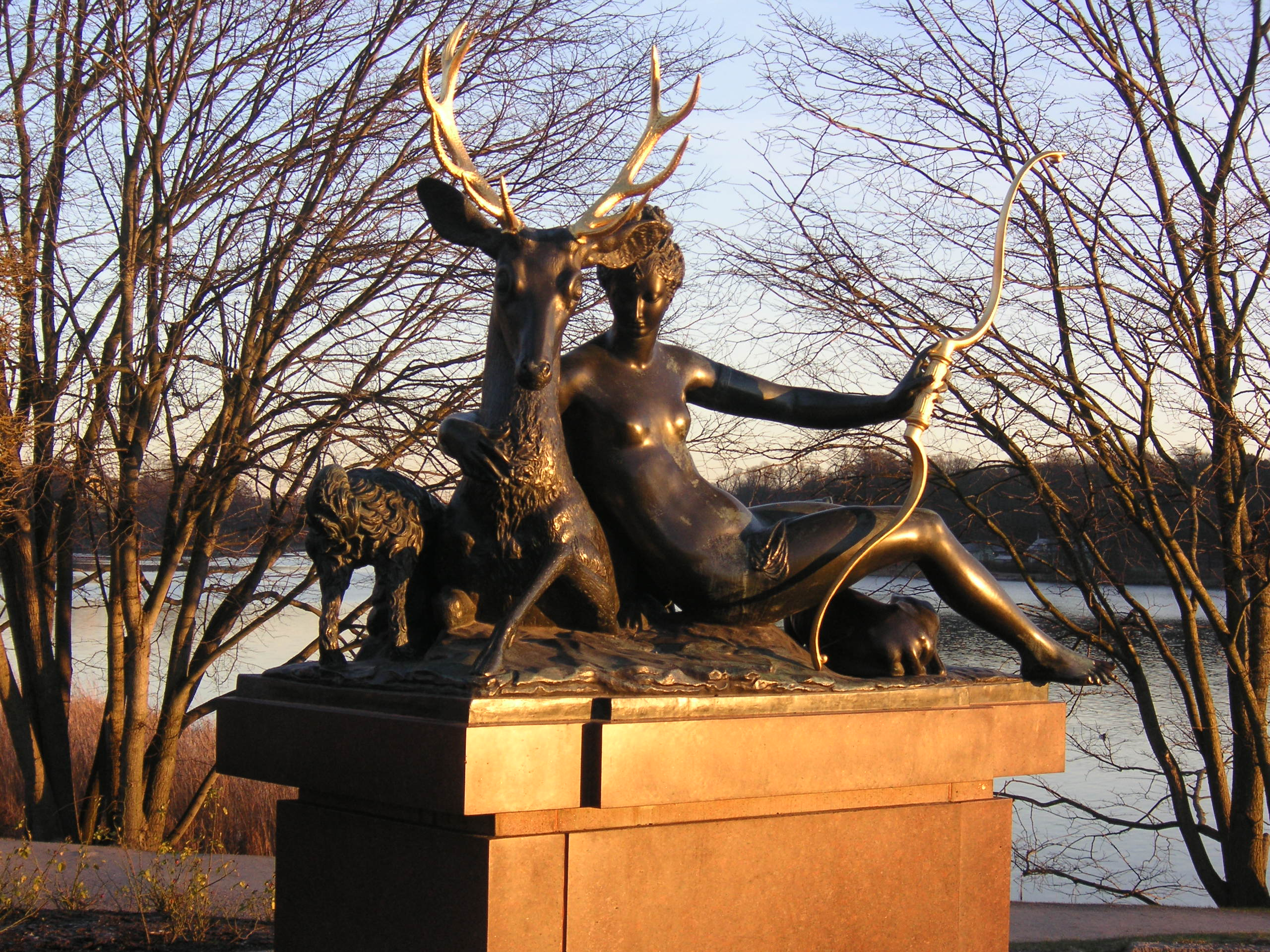 This is a copy of Jean Goujon's The Resting Diana in Nobelparken (at Nobelgatan) in Östermalm, Stockholm, Sweden. The sculpture was erected in 1964 on its site at Nobelgatan in Diplomatstaden in Stockholm, Sweden. "The resting Diana", is made of bronze with gilded details, it was created in the middle of the 16th century by the French artist Jean Goujon and was then a gift from Henry II of France, to his mistress Diane de Poitiers. Goujon's sculpture was of such high artistic quality that it was eventually moved to the Louvre in Paris. During the Second World War, however, it disappeared without a trace, and the Louvre ordered a copy at Bergman's foundry (Herman Bergman Konstgjuteri) in Stockholm in the 1950s. A replica of marble found in the Vatican was used as a model. At the same time, another copy of the artist Svante Påhlson was ordered in bronze for his sculpture park in Rottneros, Rottneros Park in Sunne, in Värmland, Sweden.